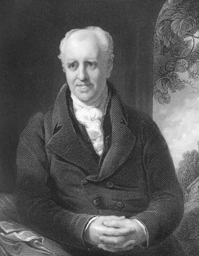 George Crabbe (1754-1832), an English poet